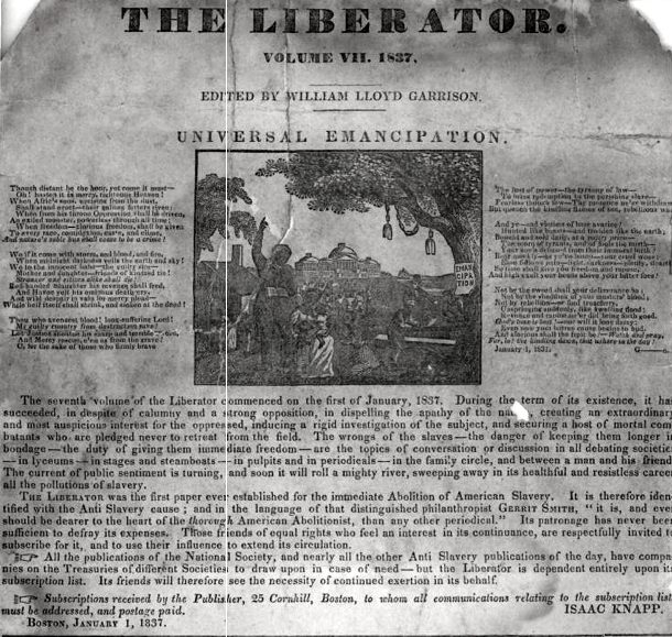 The Liberator. Volume VII. 1837. Edited by William Lloyd Garrison. Published by Isaac Knapp, Cornhill, Boston, Massachusetts